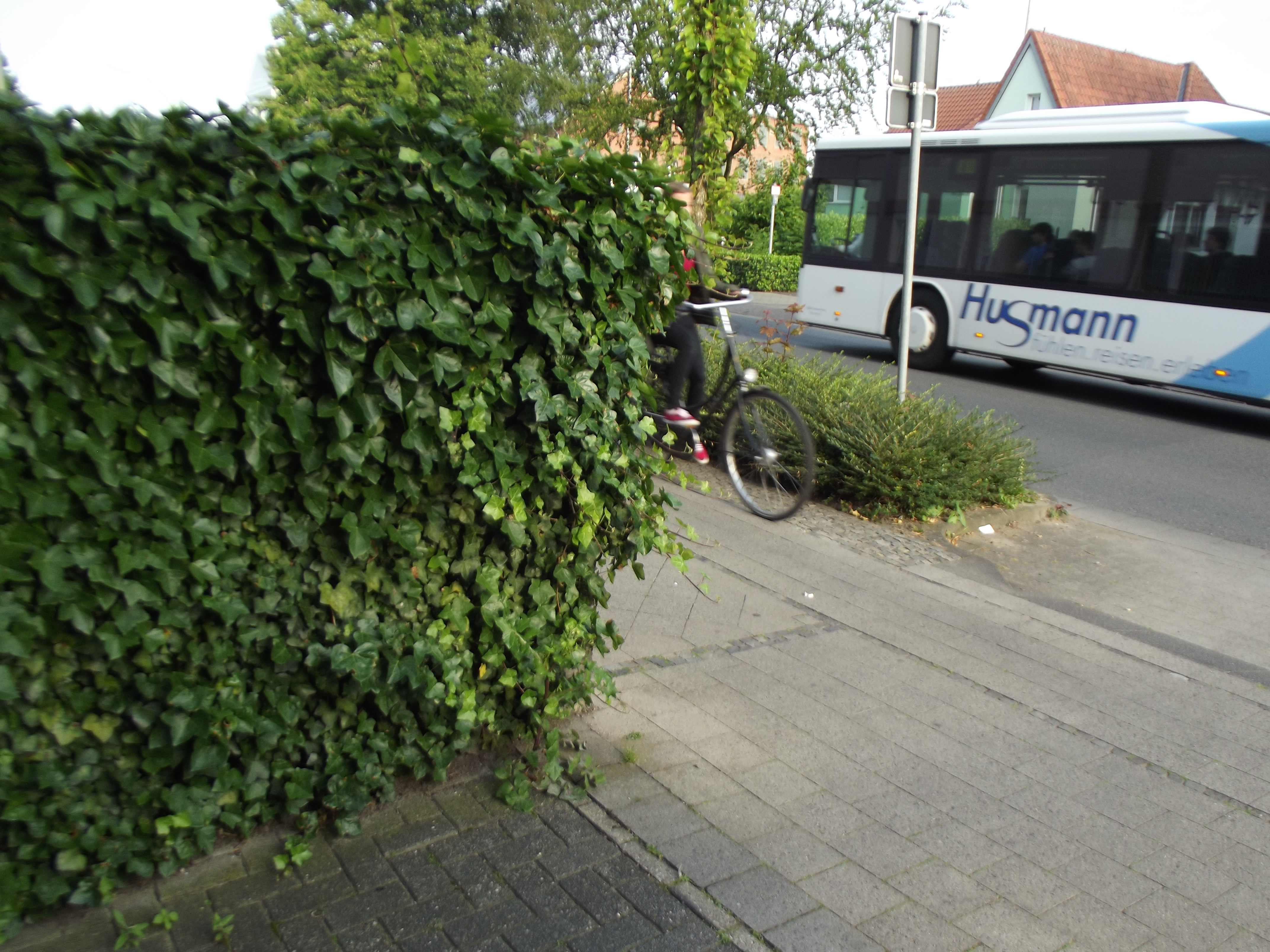 A nearly headless cyclist. Because of the bedraggled wall the cyclist can neither see into the private street nor can the cyclist be seen. A dangerous situation where eventually a cyclist could end up really headless.